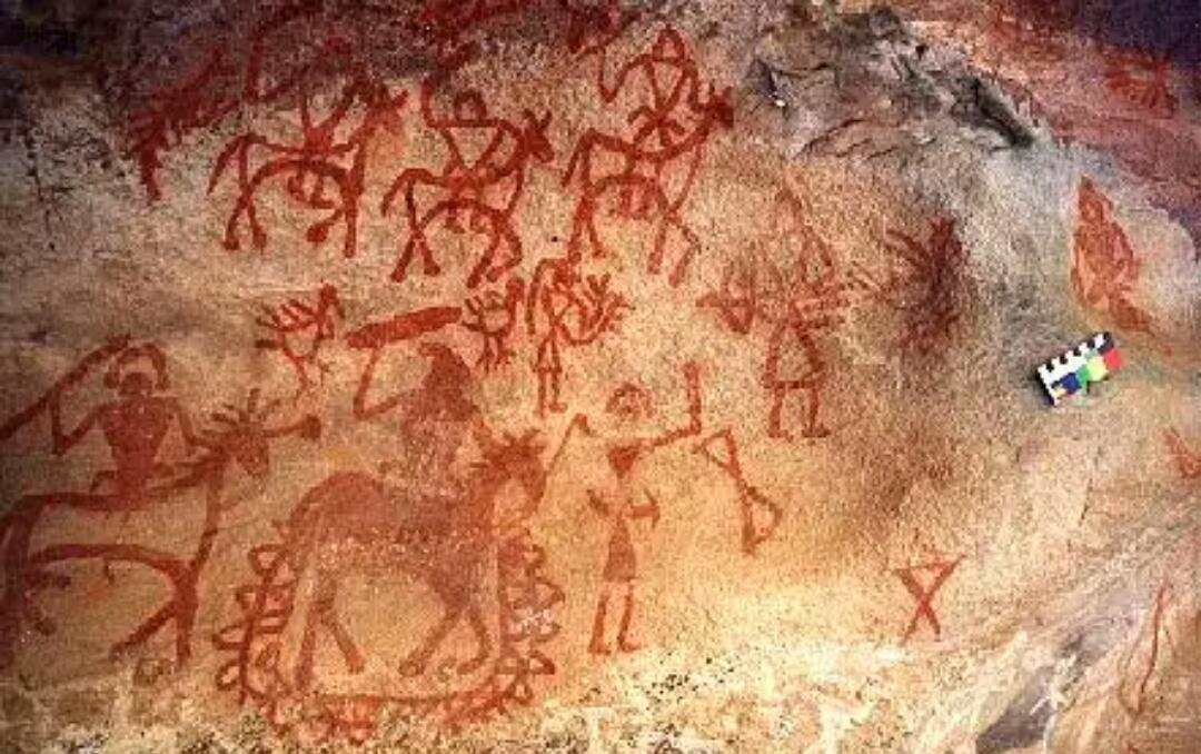 The Bhimbetka rock shelters are an archaeological site in central India that spans the prehistoric paleolithic and mesolithic periods, as well as the historic period.It exhibits the earliest traces of human life on the Indian subcontinent and evidence of Stone Age starting at the site in Acheulian times.It is located in the Raisen District in the Indian state of Madhya Pradesh about 45 kilometres (28 mi) southeast of Bhopal.